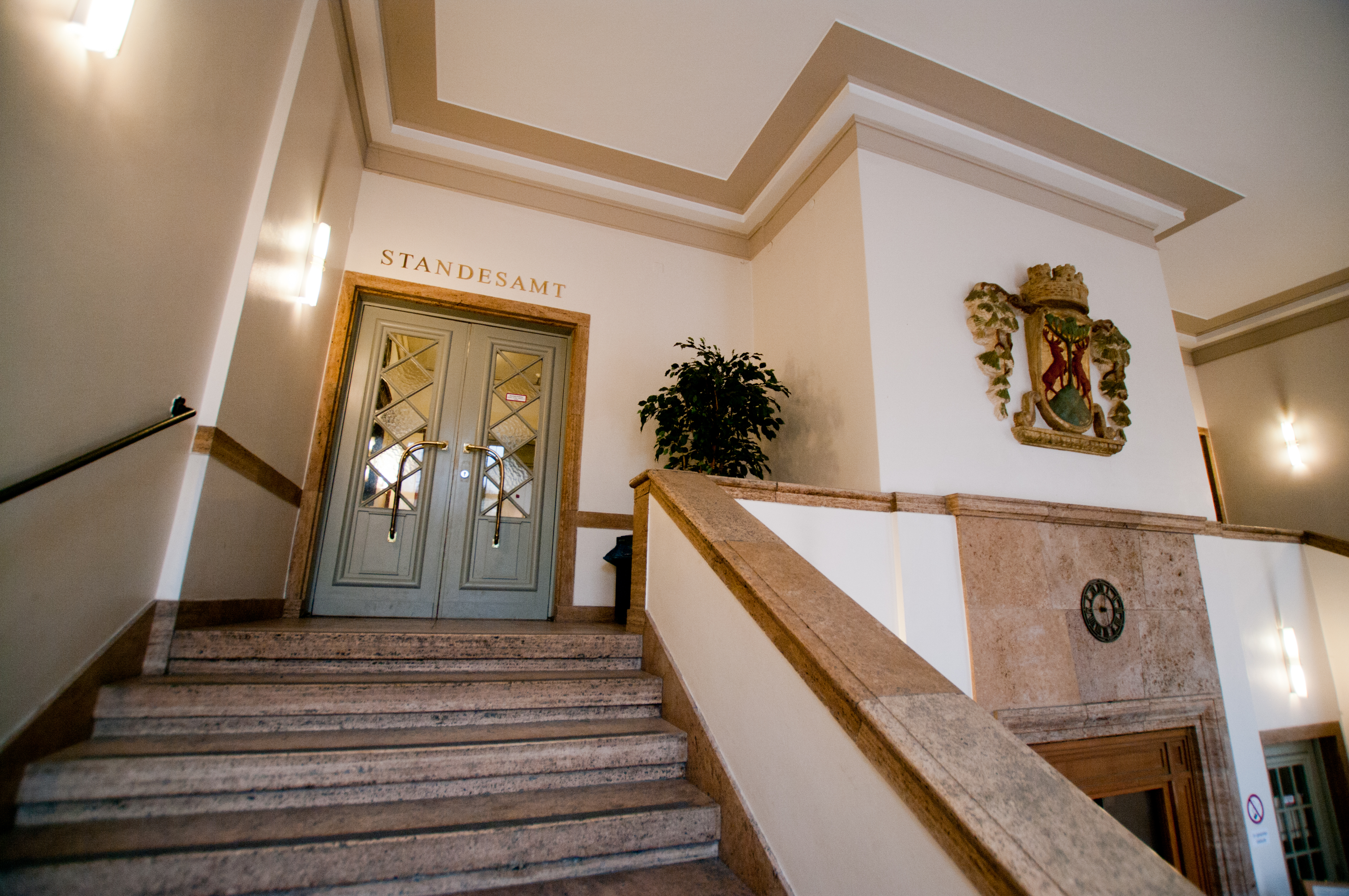 Civil registry at Berlin-Schöneberg town hall